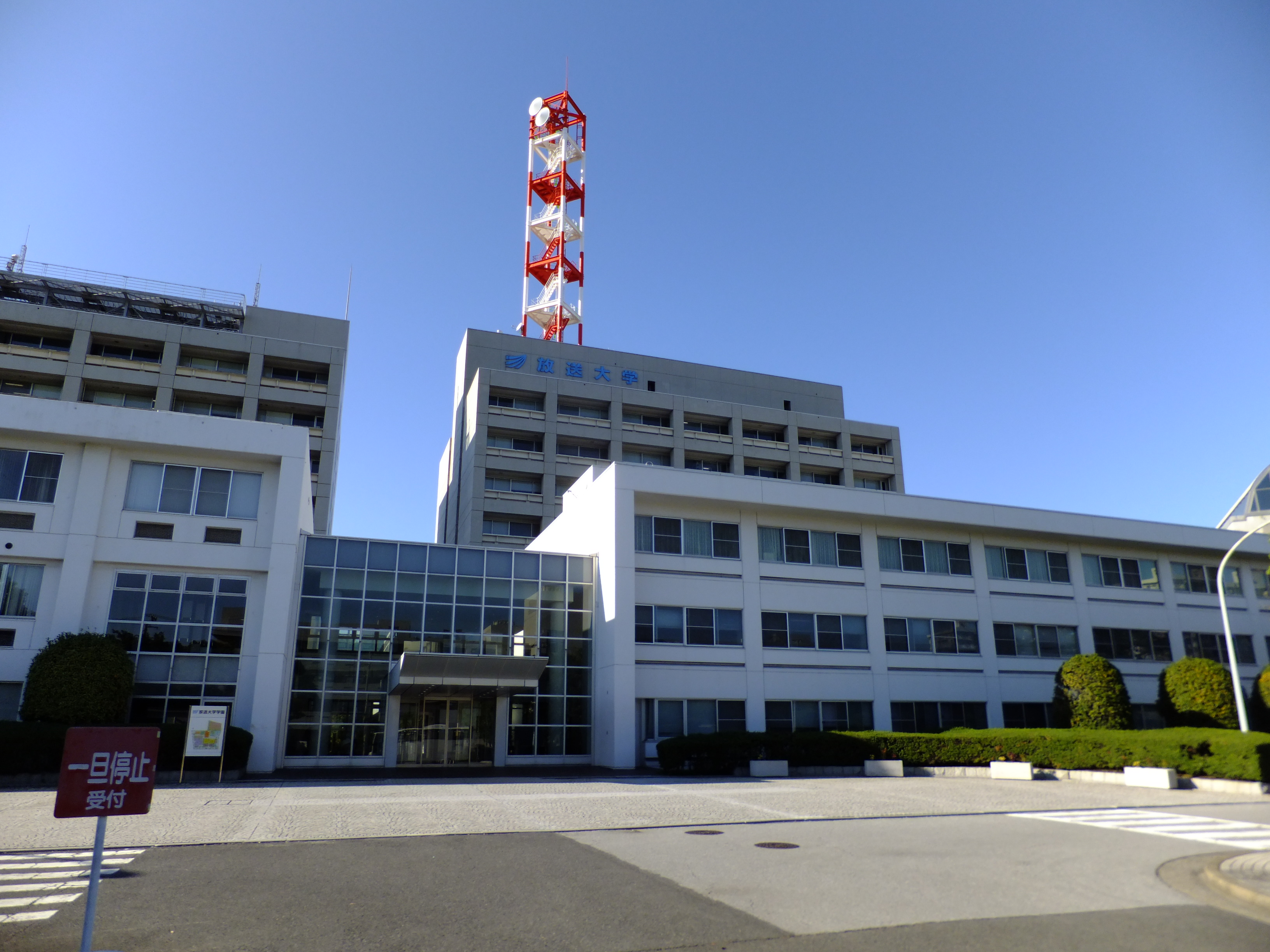 Headquarters of The Open University of Japan (OUJ), in Mihama Ward, Chiba City, Japan.